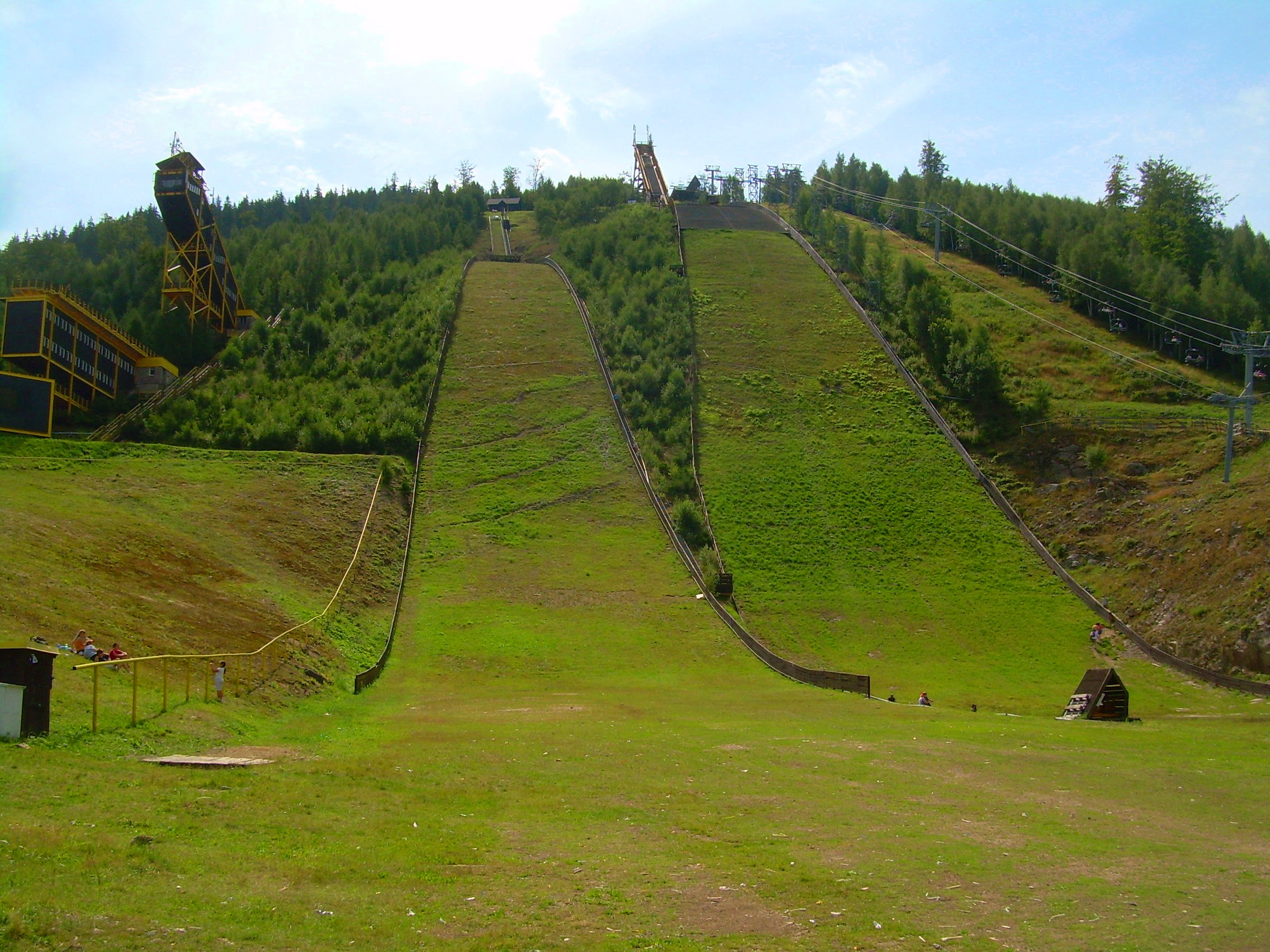 Čerťák - ski jumping hill located in the city of Harrachov, Czech Republic. Left - K-125, right - K-185